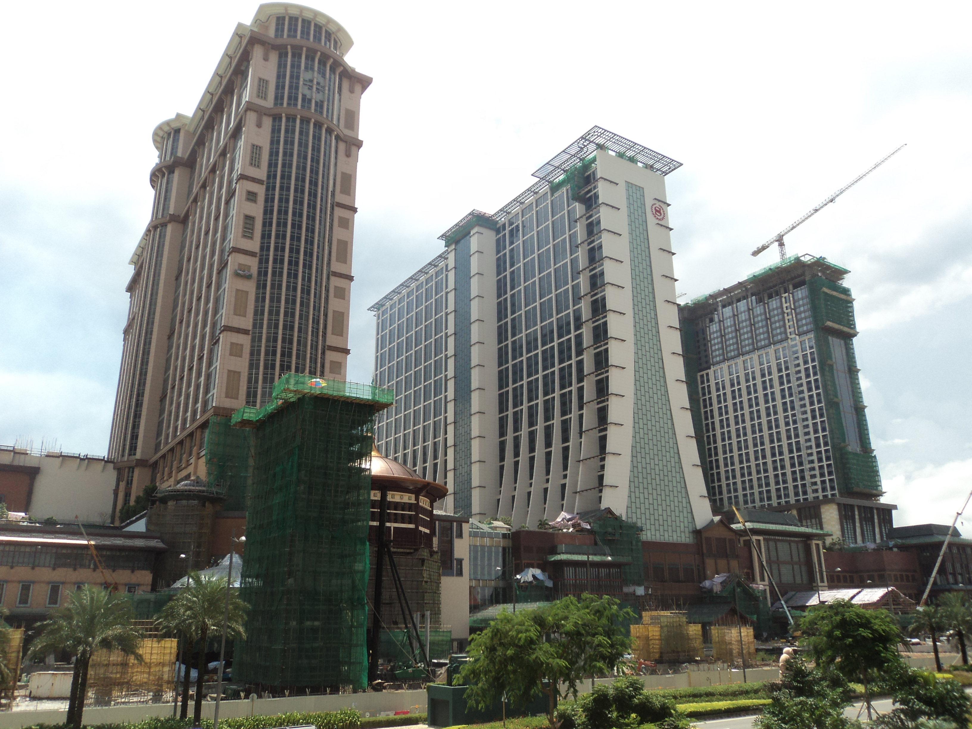 Sands Cotai Central's 3 Hotel Towers on 18 August 2011